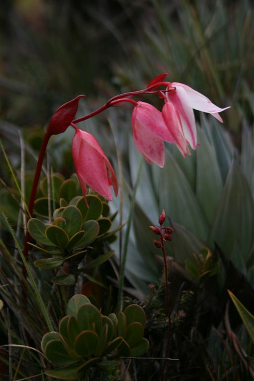 Heliamphora nutans of mount Roraima, Venezuela